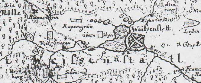 Pond of the Bavarian town Weißenstadt 1716